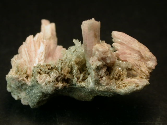 Zoisite, variety Thulite Locality: Saline Valley, Death Valley National Park, Inyo County, California, USA Original description: A 3.6 by 2.2 cms group of pink crystals on matrix. JSS specimen and photo.